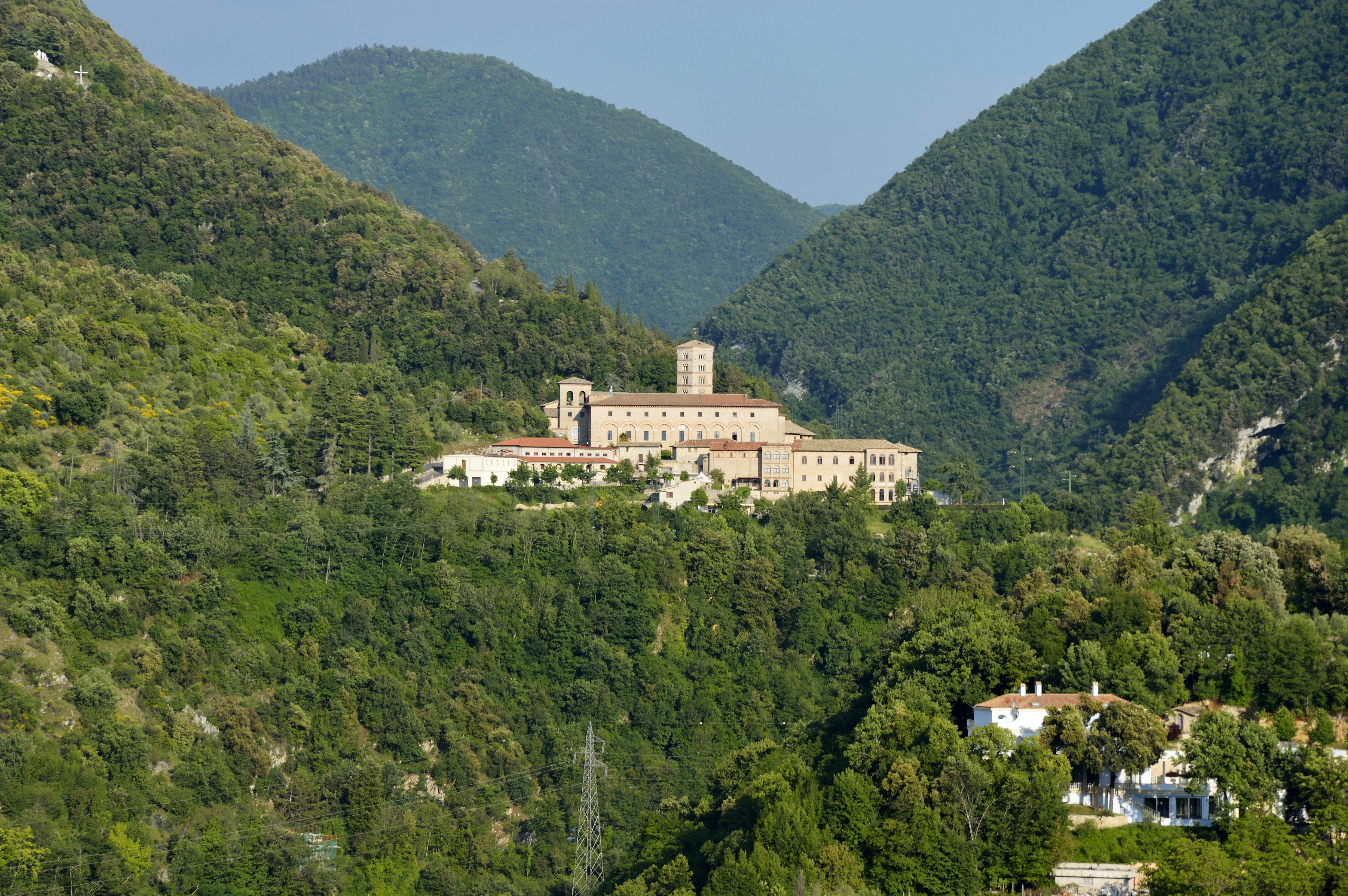 Monastero di Santa Scolastica (Subiaco)